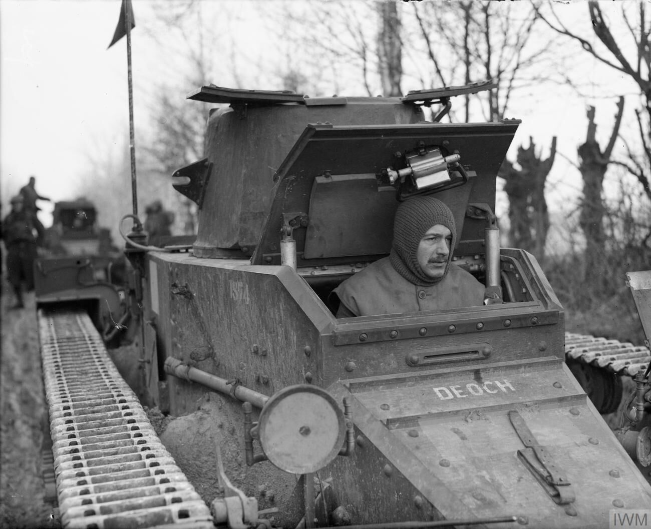 IWM caption : THE BRITISH ARMY IN FRANCE 1940; Close-up of the driver of a 4th Royal Tank Regiment Matilda tank, named 'Deoch'.